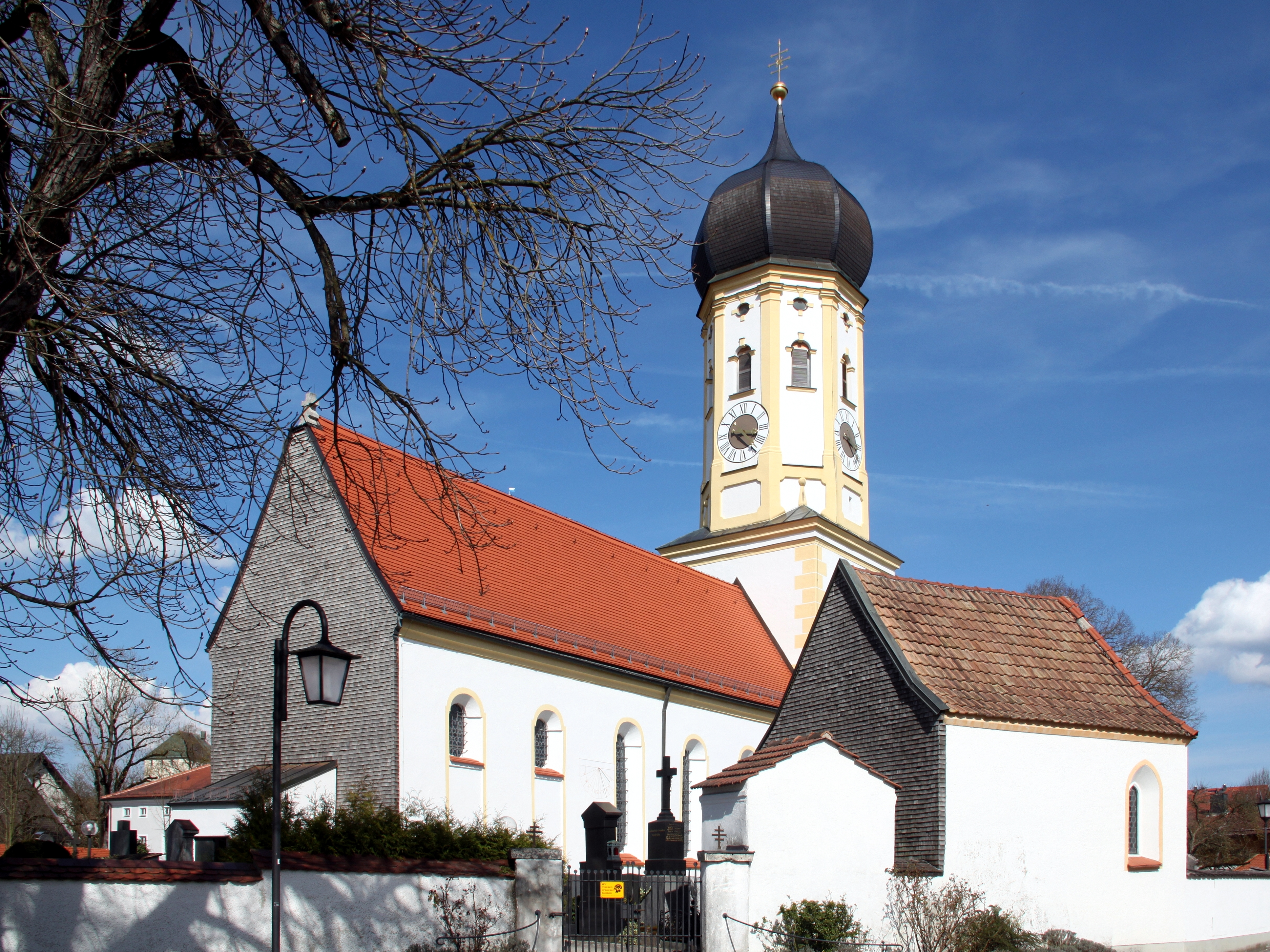 Aying: St. Andreas parochial church (from southwest)